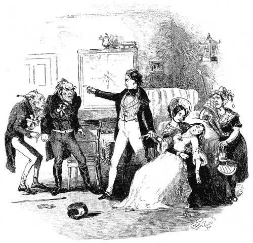 Illustration for Nicholas Nickleby by Hablot Browne